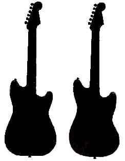 Profiles of Fender Musicmaster (left) and Fender Mustang for comparison, both shown with 22.5" (3/4 scale) necks and Musicmaster headstocks. This is an original graphic by Andrew Alder, created on 2 April 2006.